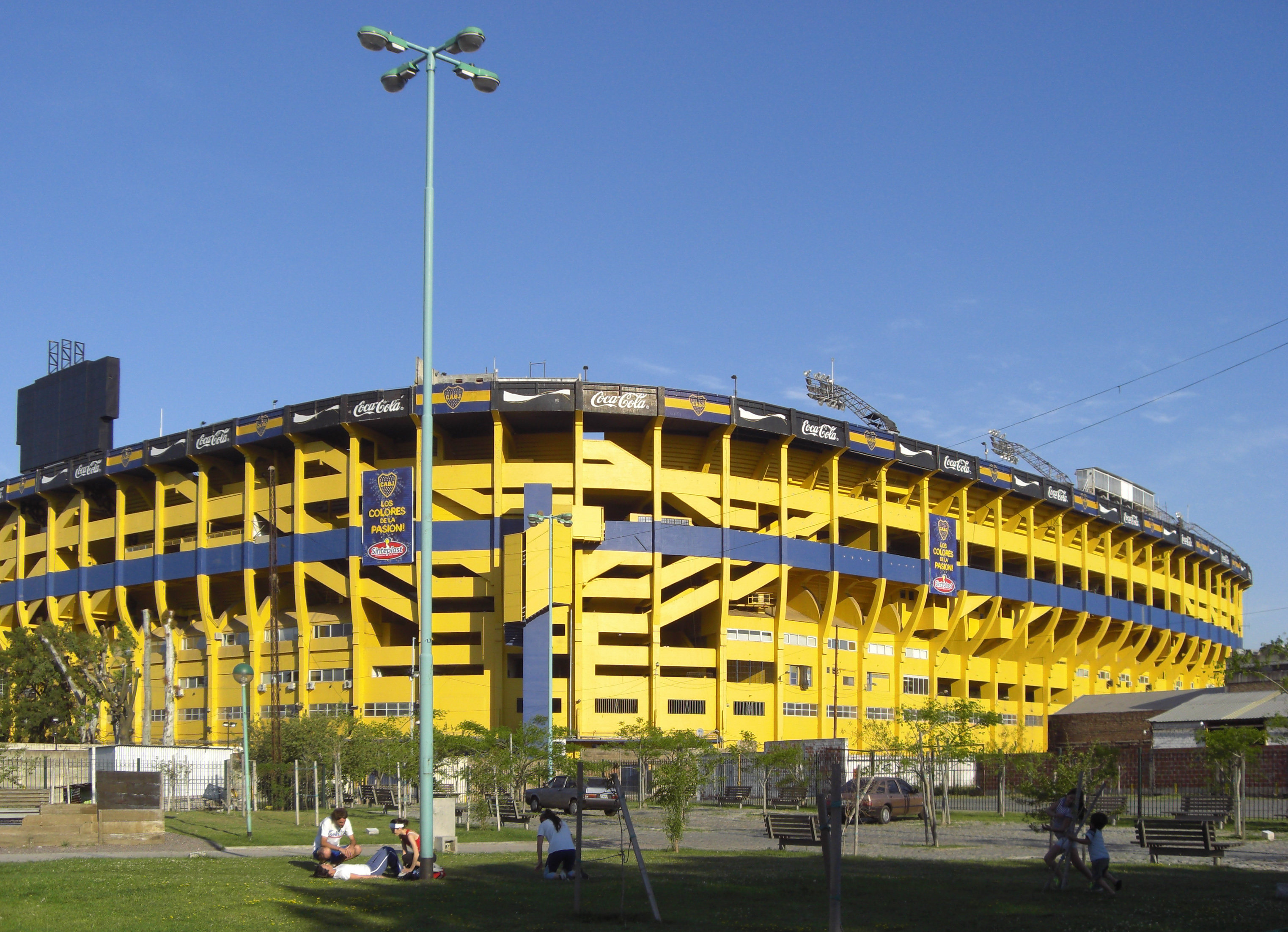 La Bombonera, Buenos Aires, Argentina